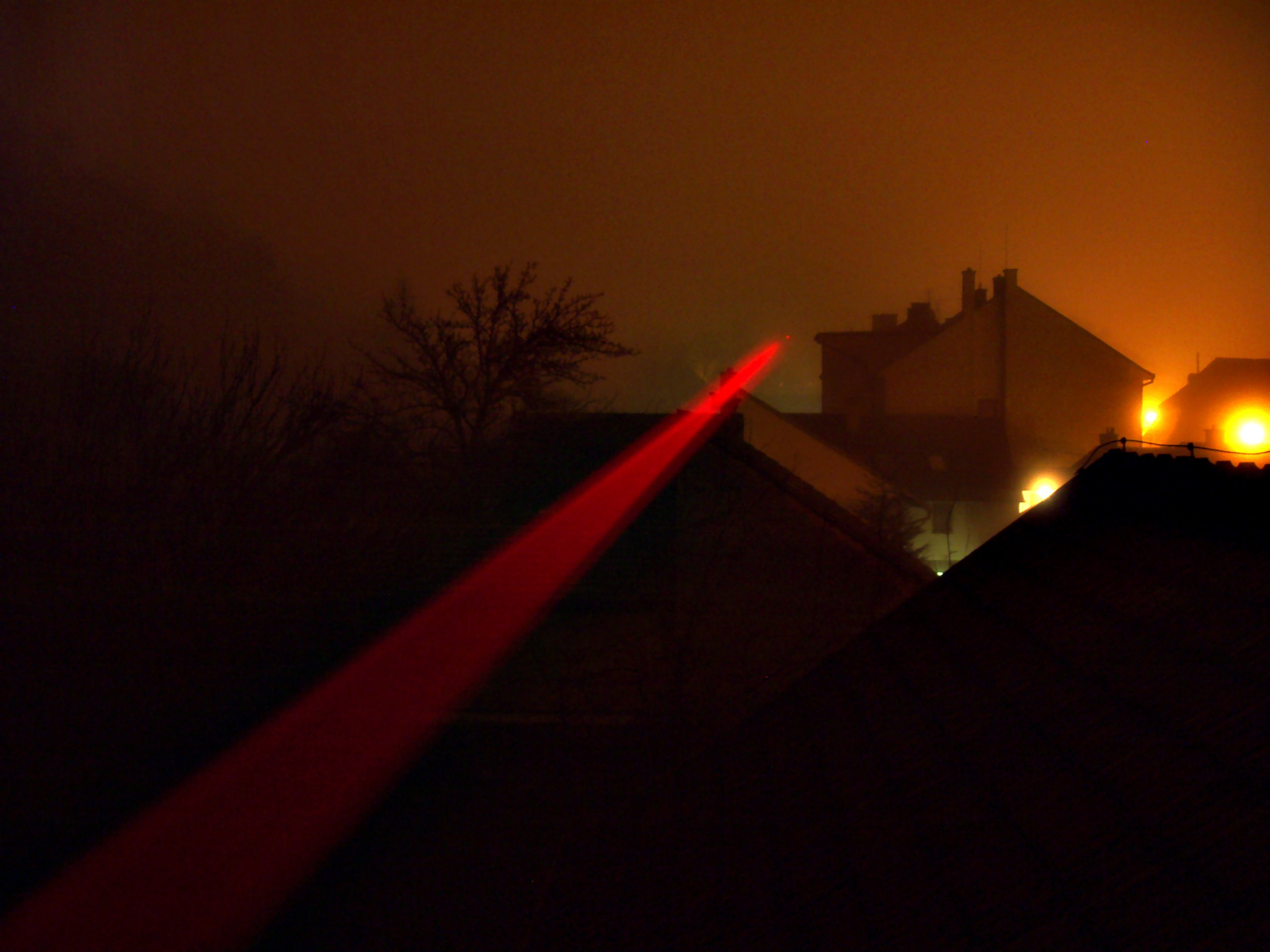 Artificially enhanced picture of Ronja beam in heavy fog. The link didn't work in this fog according to the user testimonial at ( The original unenhanced picture is at A daylight view without fog is at Further related pictures at The faint red dot is the transmitter at the other side. One can see the beam doesn't point exactly at the dot. Such a misalignment shouldn't normally be on a properly aimed track, because it contributes to the optical loss and makes the link drop out earlier than necessary.